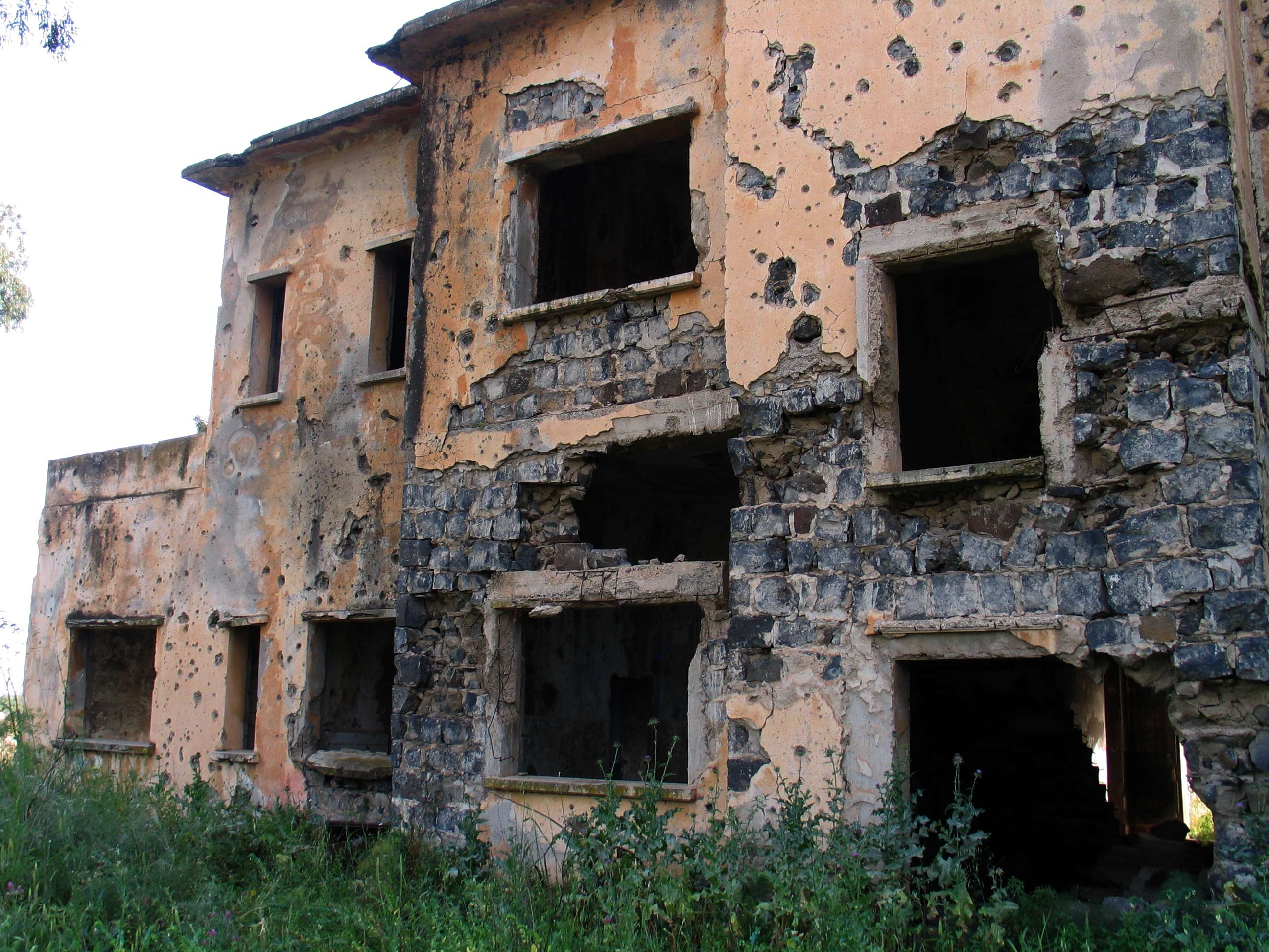 "Upper custom house", east of Bnot Yaakov bridge.